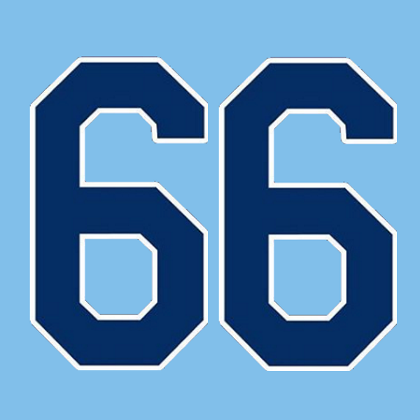 Tampa Bay Rays retired number.